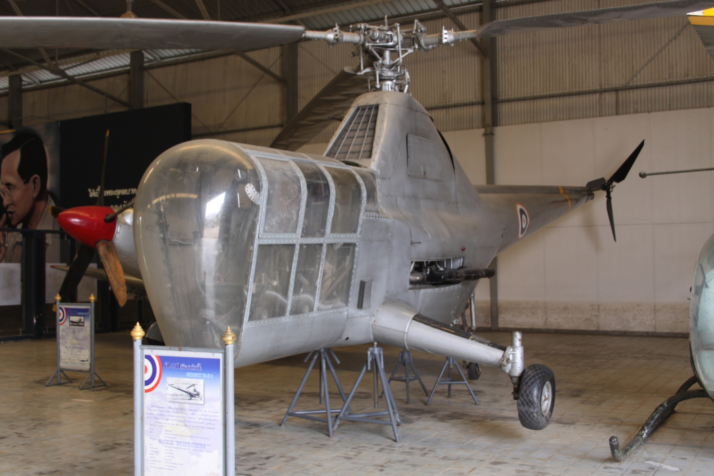 At Don Mueang International Airport